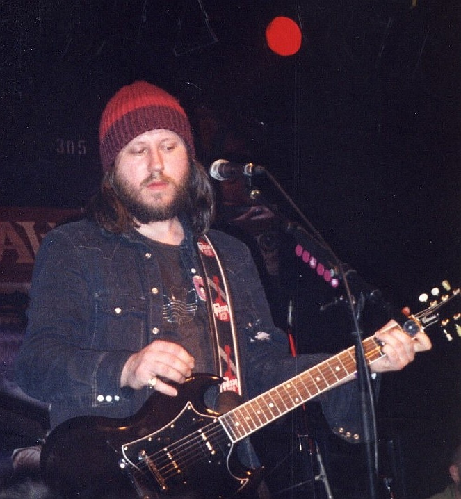 Badly Drawn Boy Live @ l'Elysée Montmartre, Paris